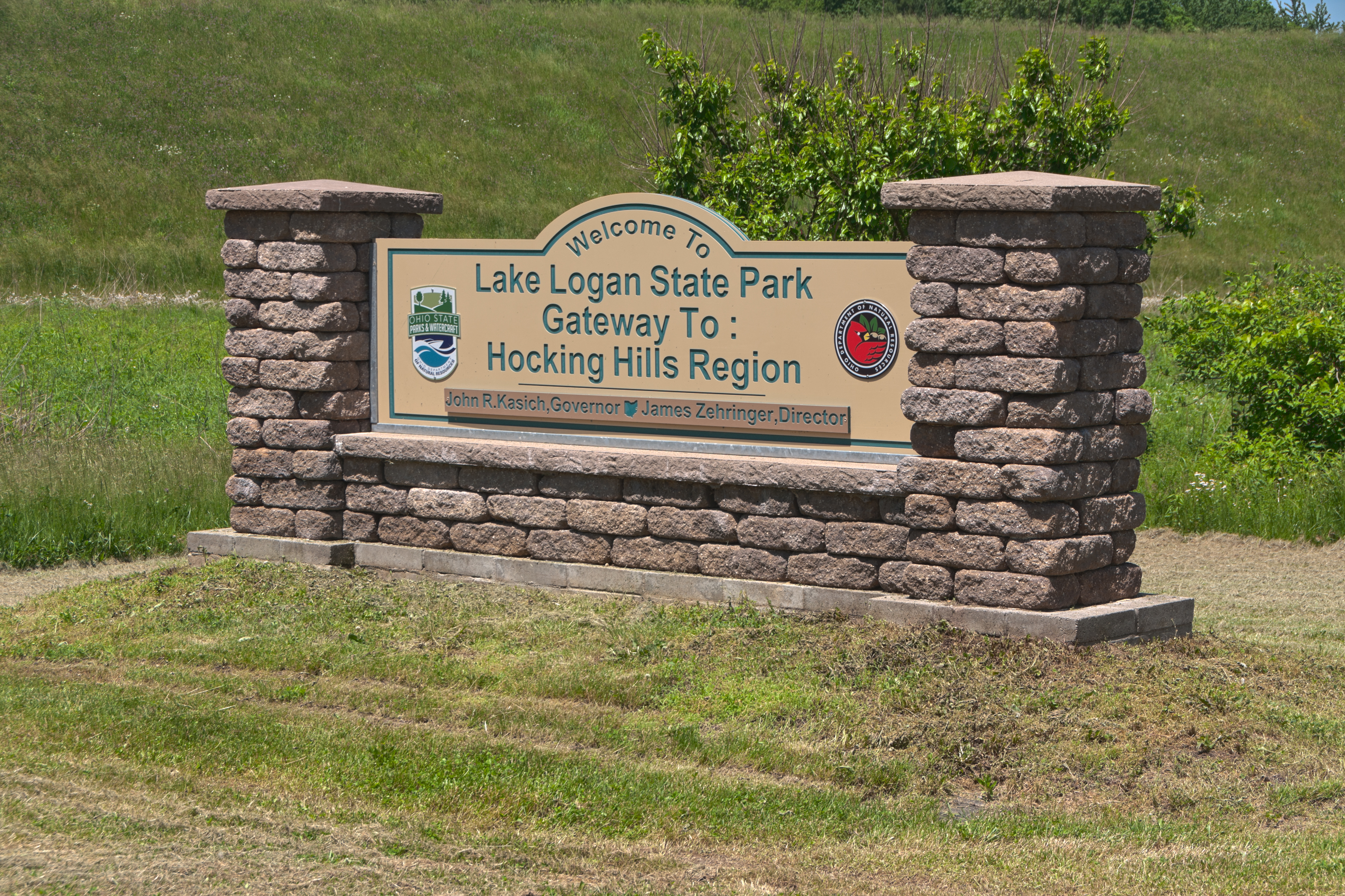 Sign for Lake Logan State Park, Gateway to the Hocking Hills Region, Ohio.